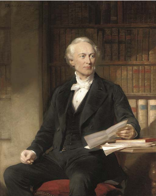 Portrait of Octavius Wigram (1794-1878)